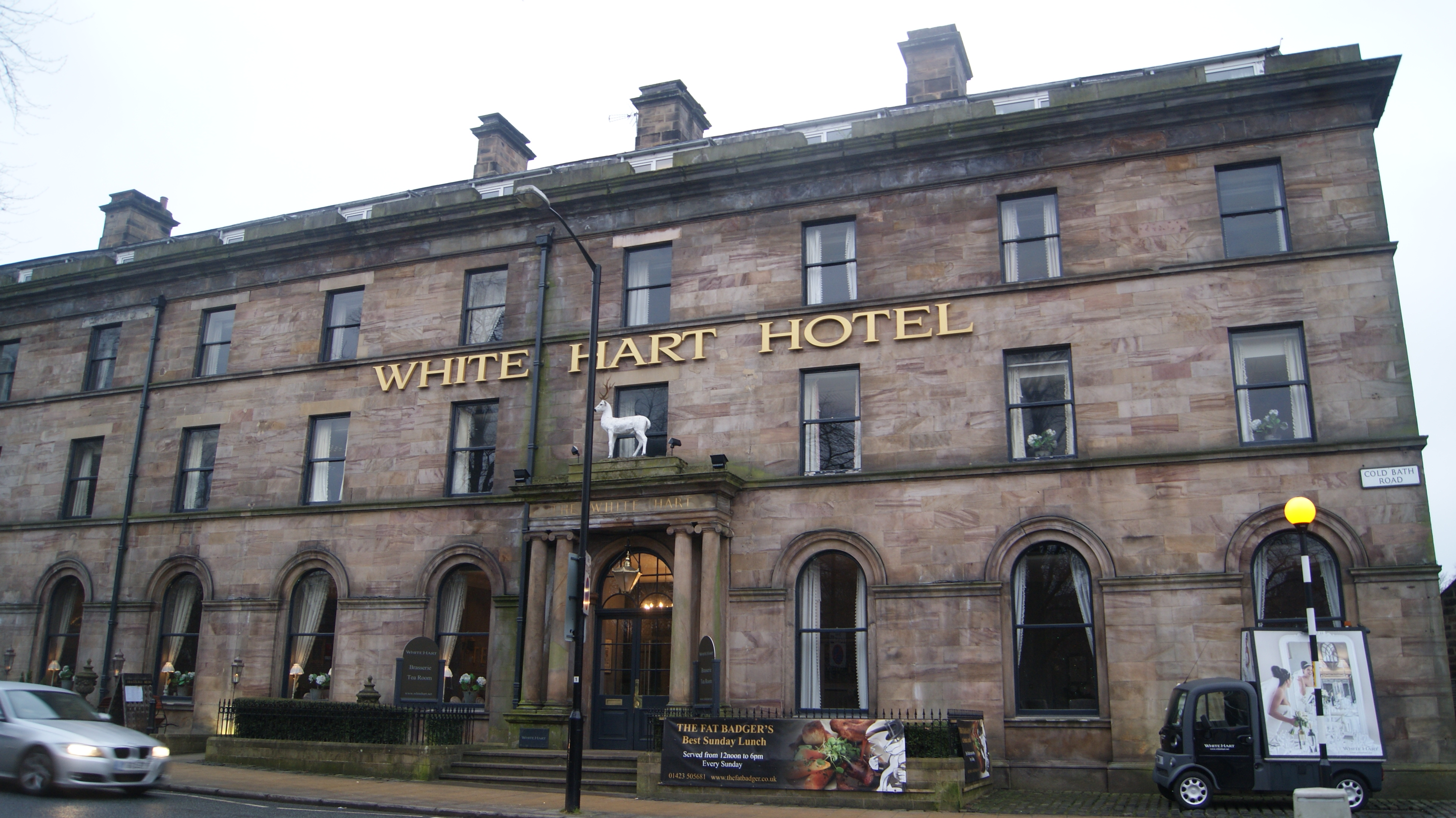 White Hart Hotel, Cold Bath Road, Harrogate, North Yorkshire. Taken on the afternoon of Monday the 25th of February 2013.